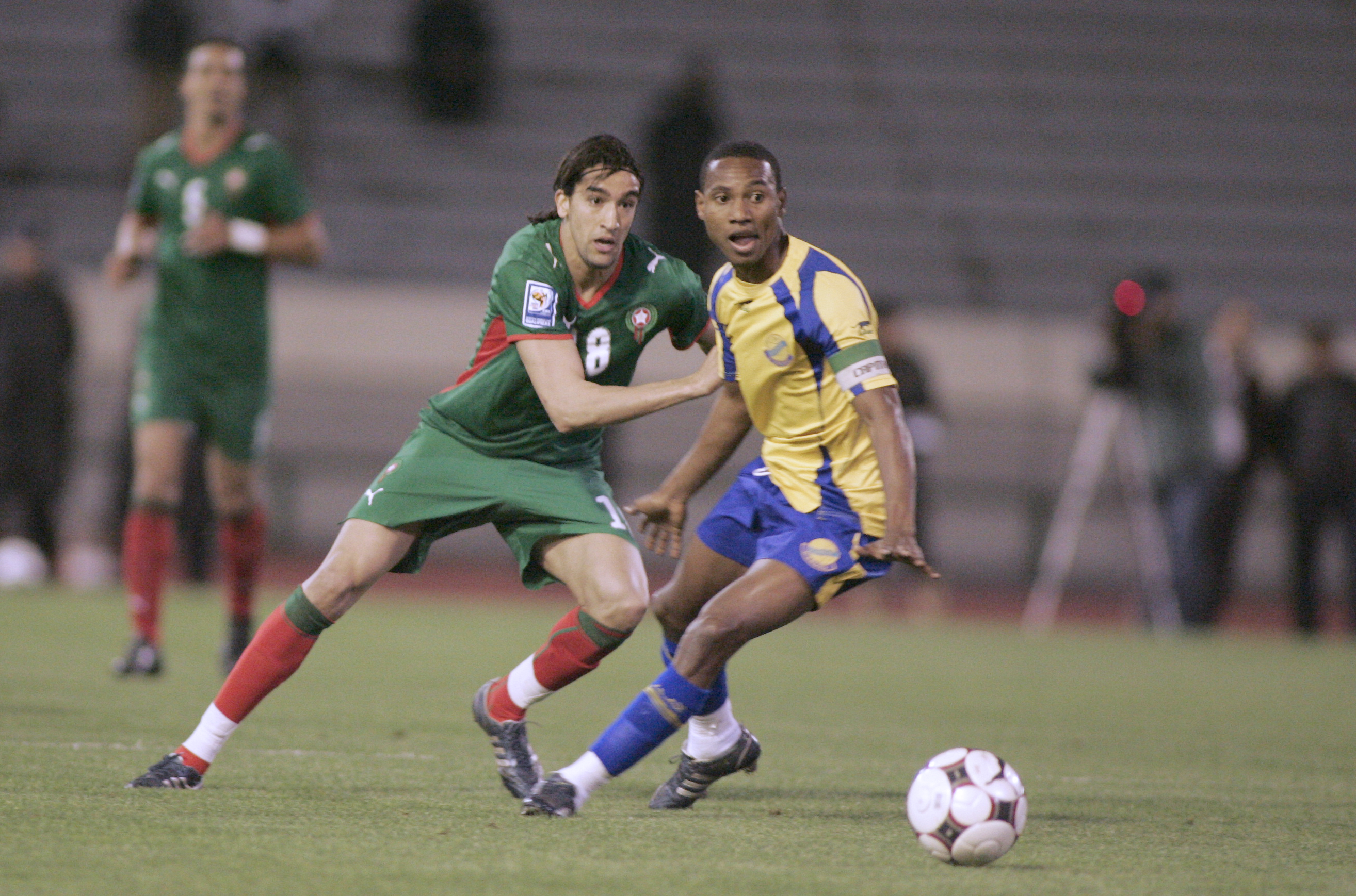 Youssef Hadji of Morocco (left) and Paul Ulrich Kessany of Gabon (right) during an international match of their national teams. Gabon won the match against Morocco with 2-1.